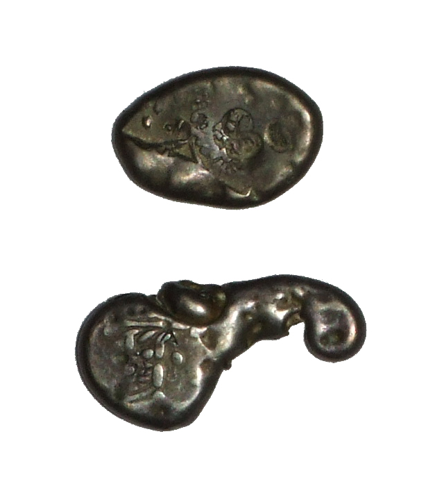 Keicho-mameitagin(silver beans)